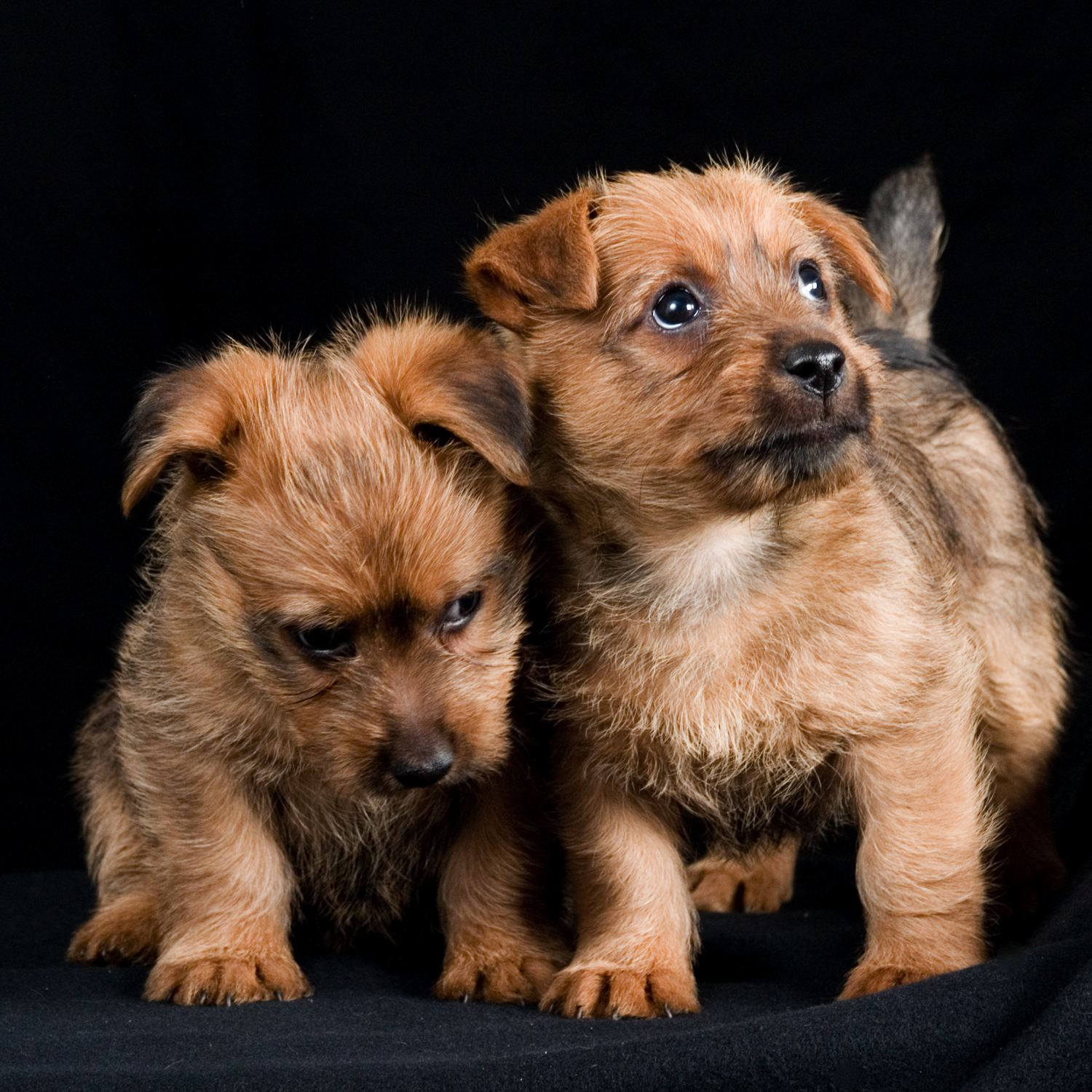 Boys together shots - which were less chaotic than the individual shots (with a carrier full of whining pups wanting to be in on the action too).